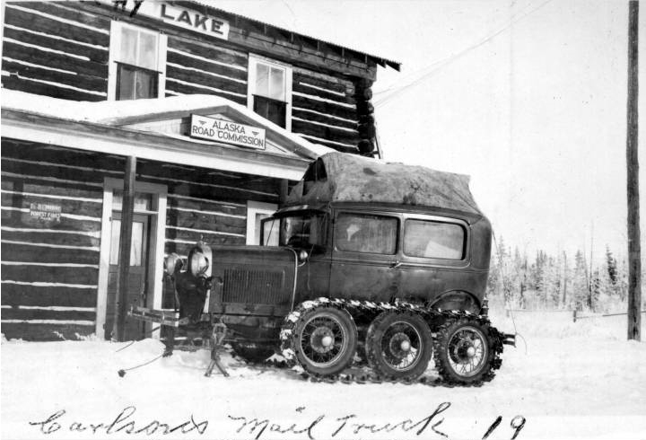 Taken from caption of photo: " Carlson's mail truck 19." Sign on top of building reads [?] Lake. The sign on front of the two-story log building reads Alaska Road Commission. The mail truck is a tracked vehicle. Possibly Kenny Lake, possibly 1919 [no: truck is a later model; "19" may have been a false start at dating the image] . Original photograph size: 2 3/4" x 4 1/2". " (note the vehicle technically is a half-track)